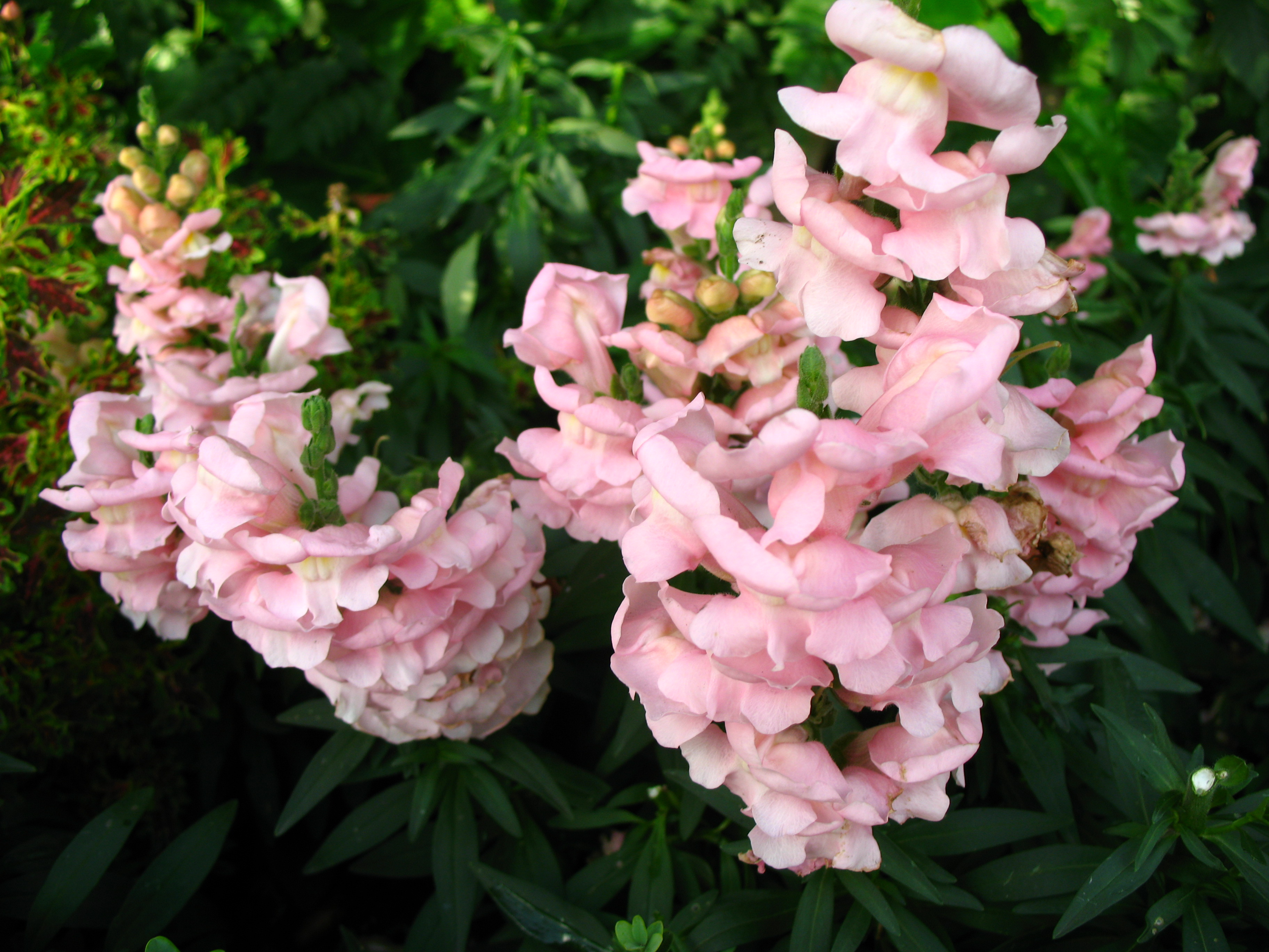 Flowers at the Mirabell Garden, Salzburg, Austria